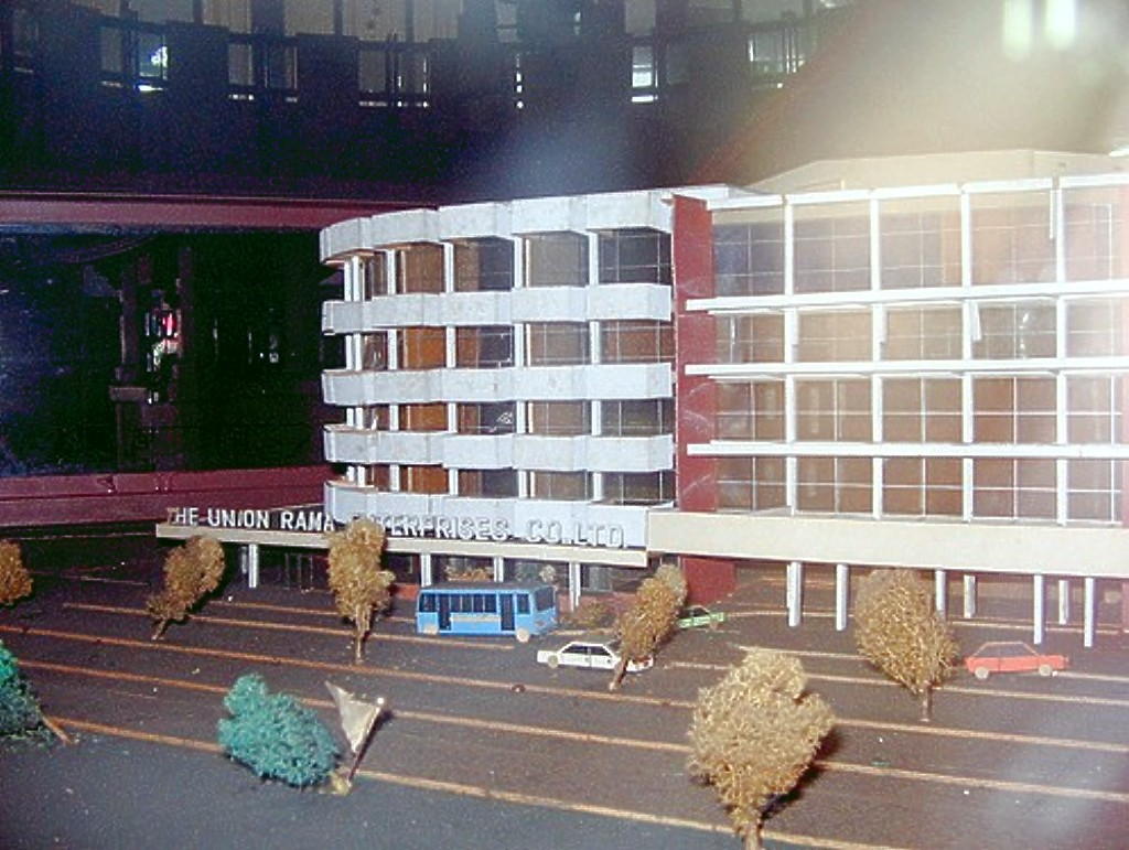 Model of Rama Theatre, Rama 4 Road, Bangkok, Thailand 中文（香港）: 泰國，曼谷，拍喃四路，拉瑪戲院，模型沙盤